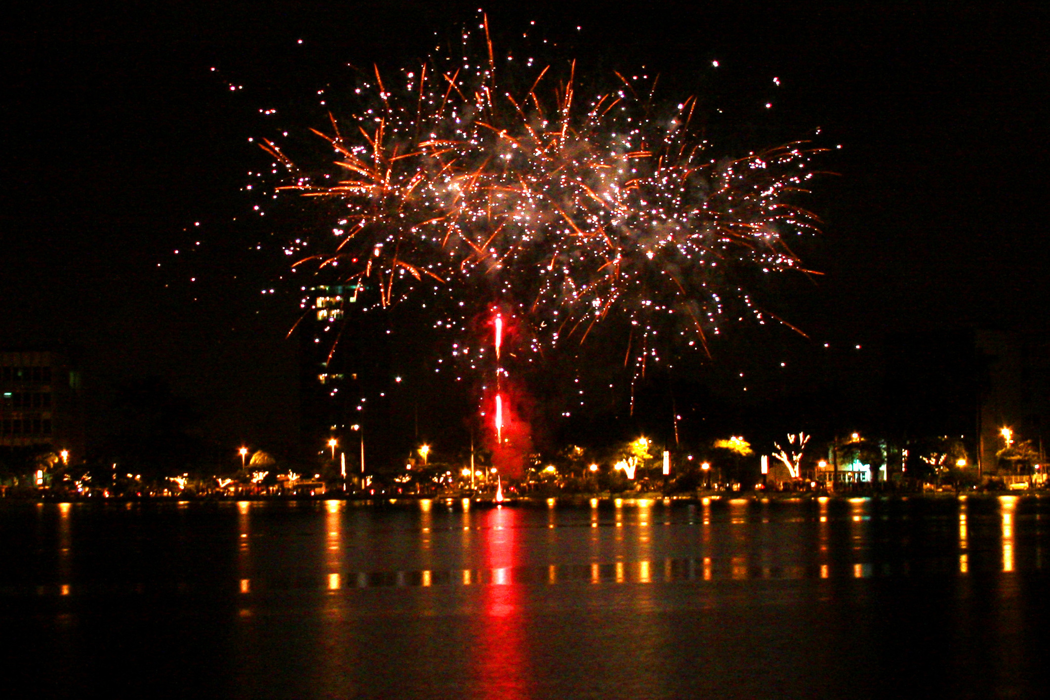 New-Year 2010 in the Paulino Lake, in Sete Lagoas, Minas Gerais, Brazil.